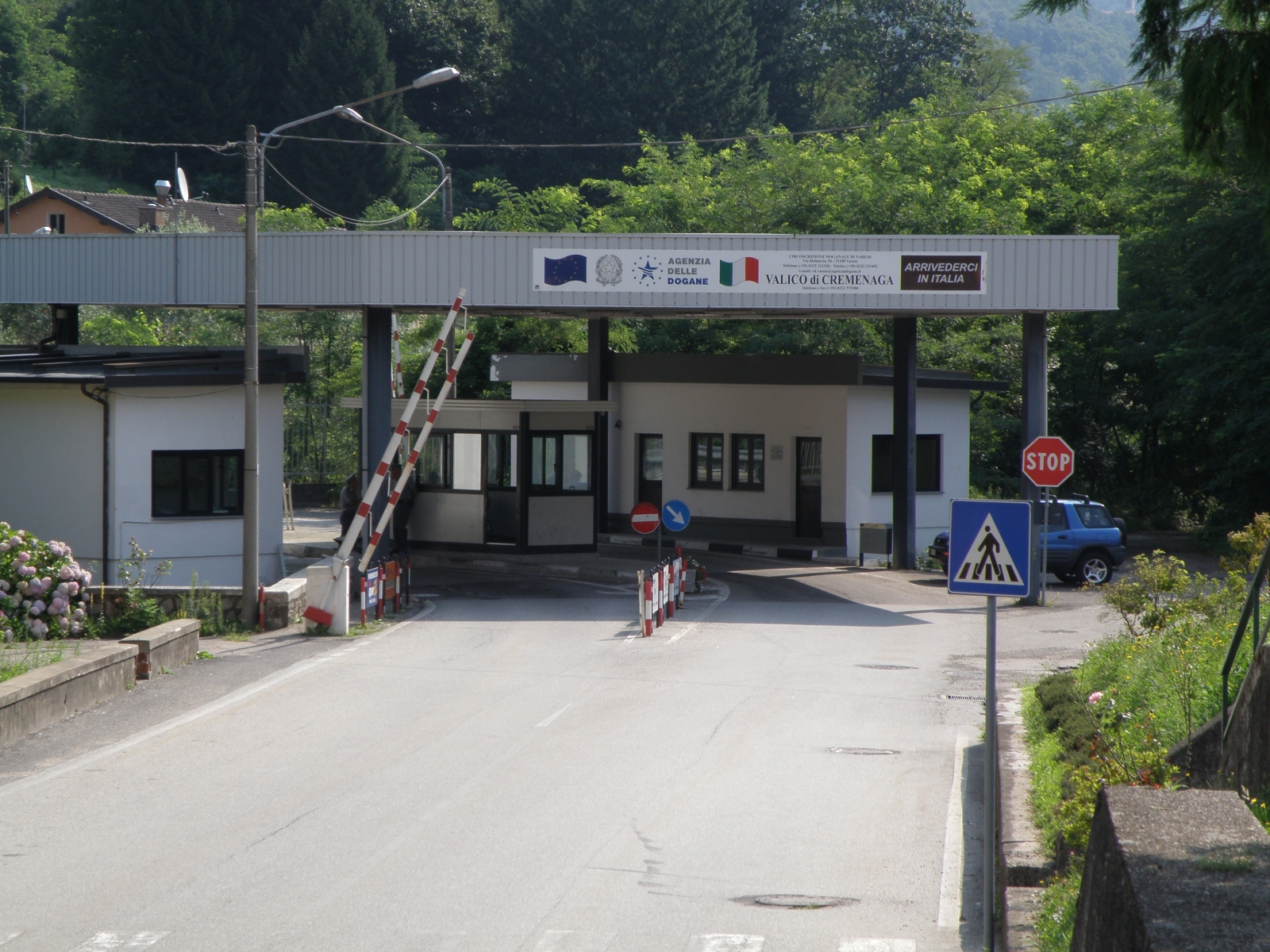 frontier between Italy and Switzerland - Cremenaga Zoll